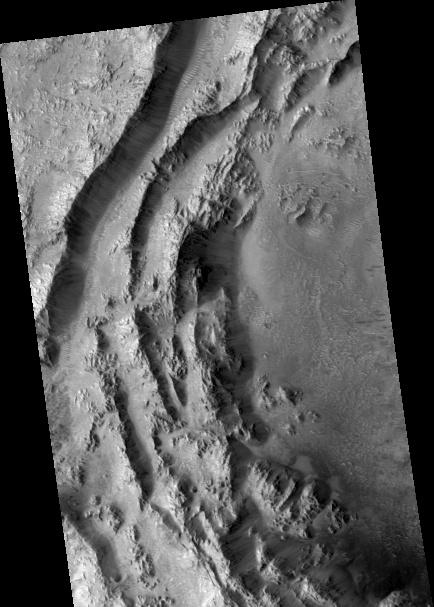 Santa Fe Crater as seen by hirise. Location is 19.2 N and 311.9 E.